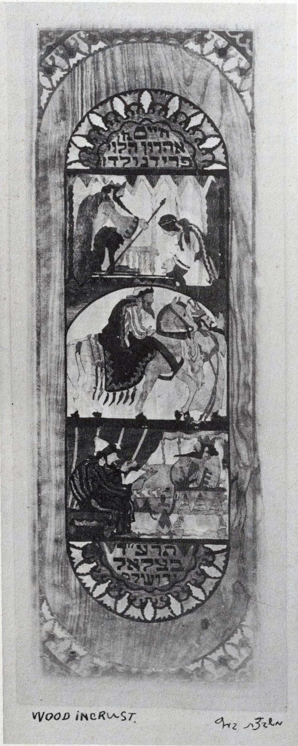 שיבוץ בעץ לפי רישום מאת אריך גולדברג. 1914.